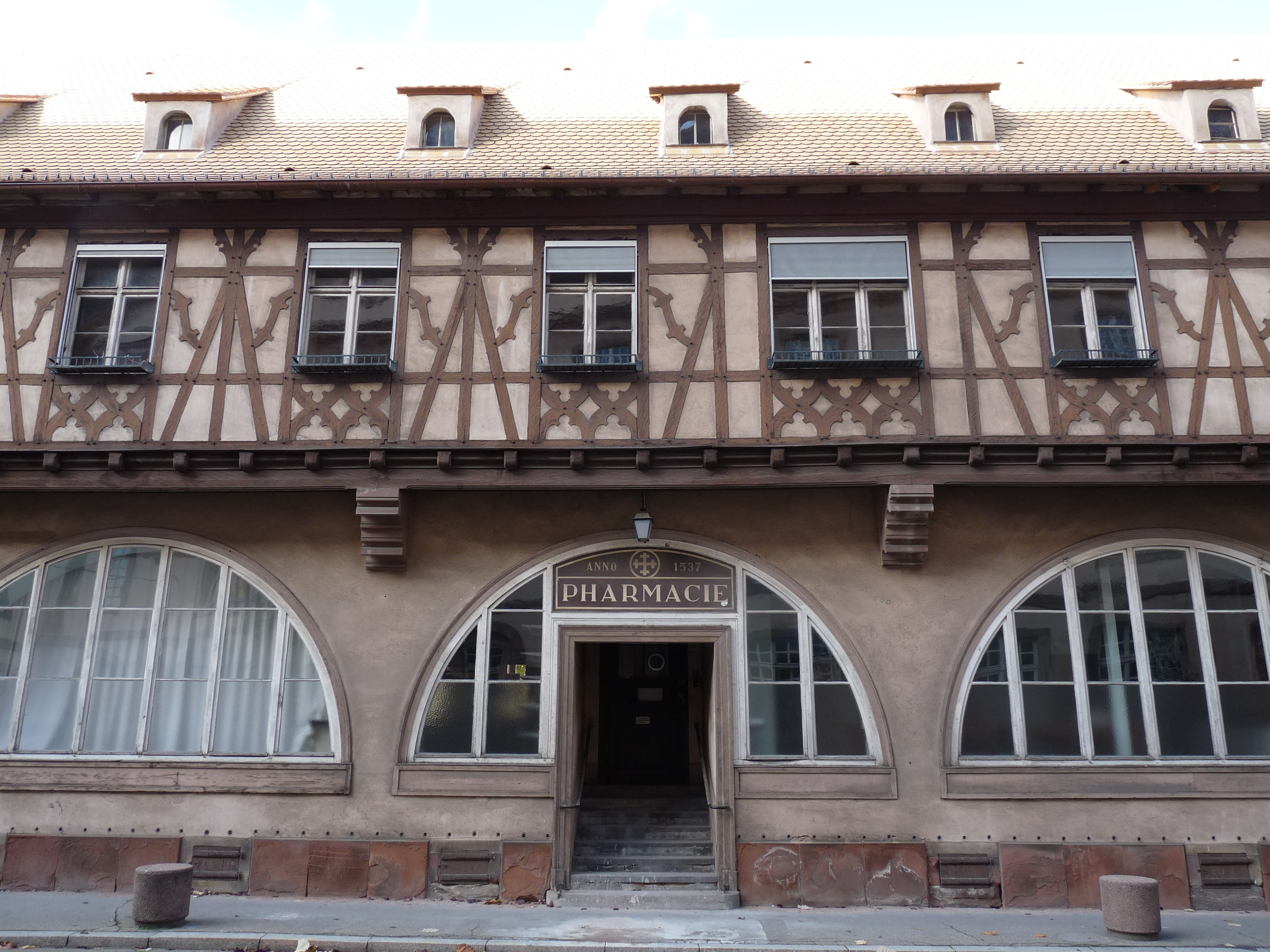 Old pharmacy (1537) inside Strasbourg hospital